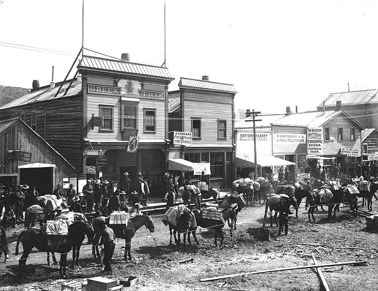 Shows the "Green Tree" and "Dawson Market" Caption on image: "Bartlett Bros Pack Train. Dawson. 1899" Subjects (LCTGM): Business districts--Yukon--Dawson; Pack animals--Yukon--Dawson; Streets--Yukon--Dawson Subjects (LCSH): Bartlett Brothers (Dawson, Yukon); Green Tree (Dawson, Yukon); Dawson Market (Dawson, Yukon)